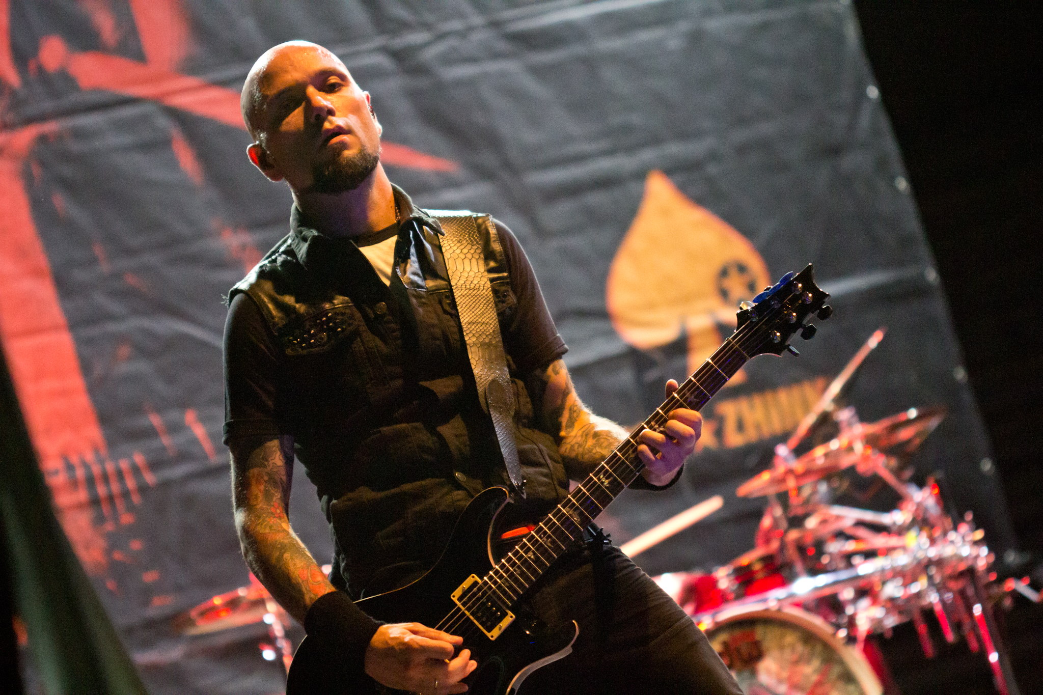 Spanish metal band Sôber at Asaco Metal Fest 2013, Parla, Spain.